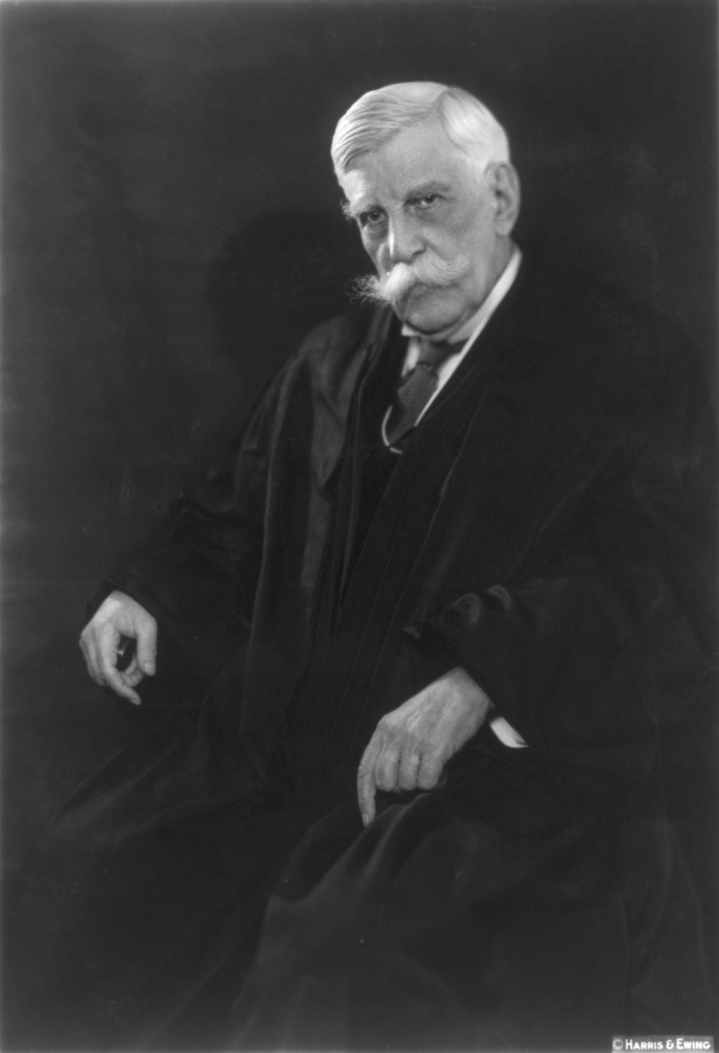 Oliver Wendell Holmes, Jr., circa 1930. Edited photograph from the Library of Congress Prints and Photographs Division.